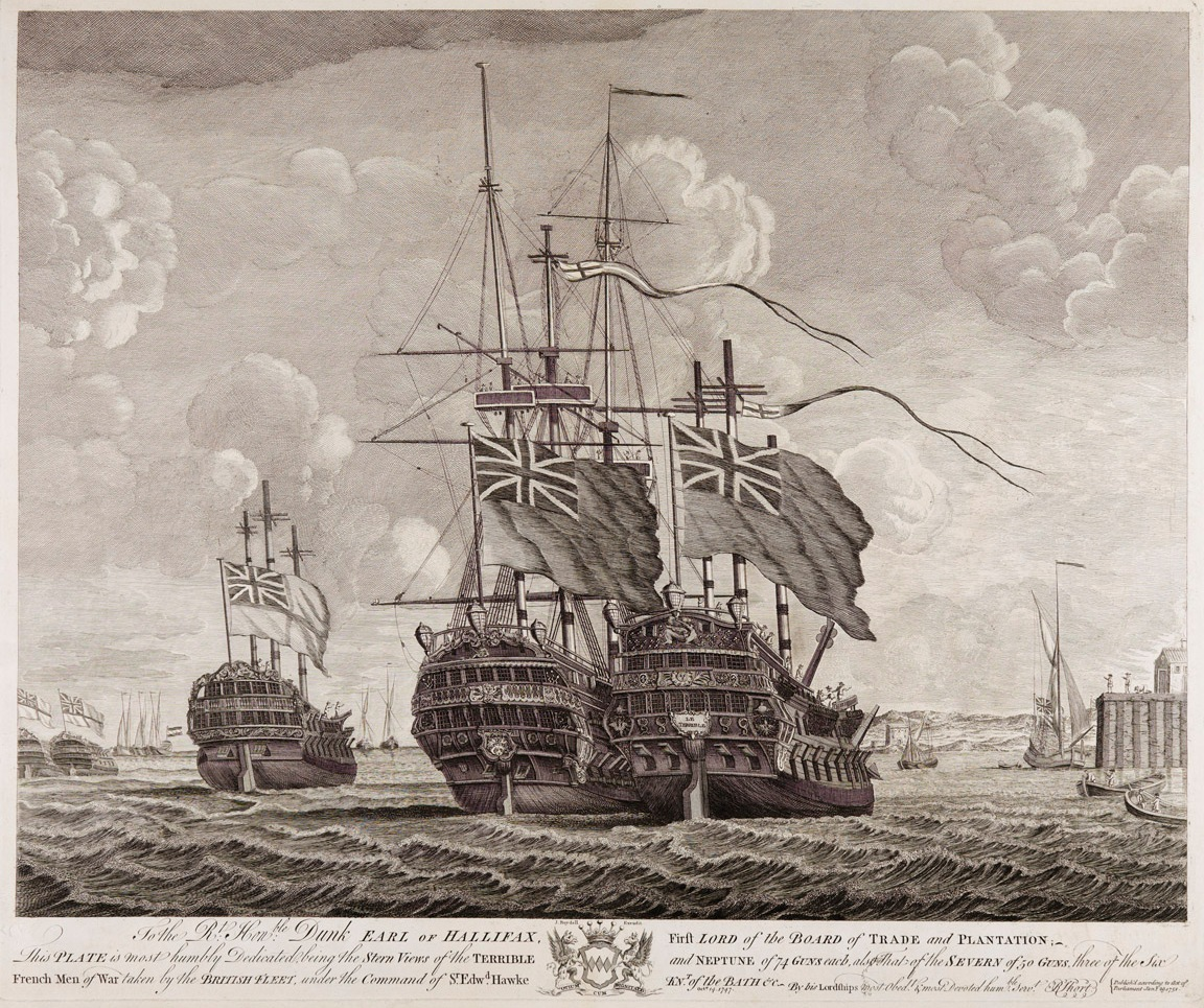 To the Rt Honble Dunk Earl of Hallifax... This Plate... the Stern Views of the Terrible and Neptune..., also that of the Severn..., three of the six French Men of War taken by the British Fleet under the Command of Sir Edward Hawke... Octr 14 1747. Three of the six French vessels captured at the Battle of Cape Finisterre in October 1747.